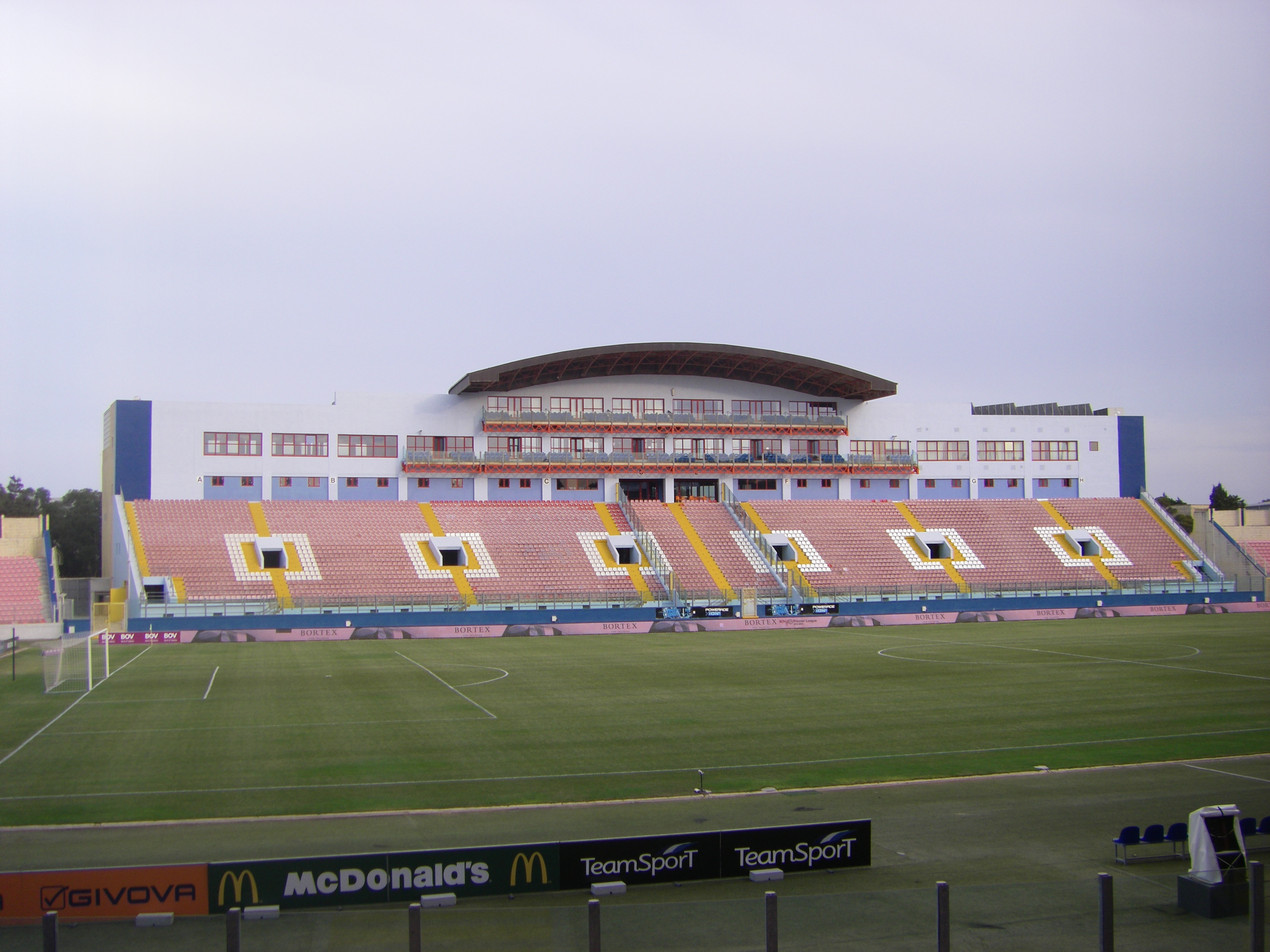 Ta' Qali National Stadium Main Tribune